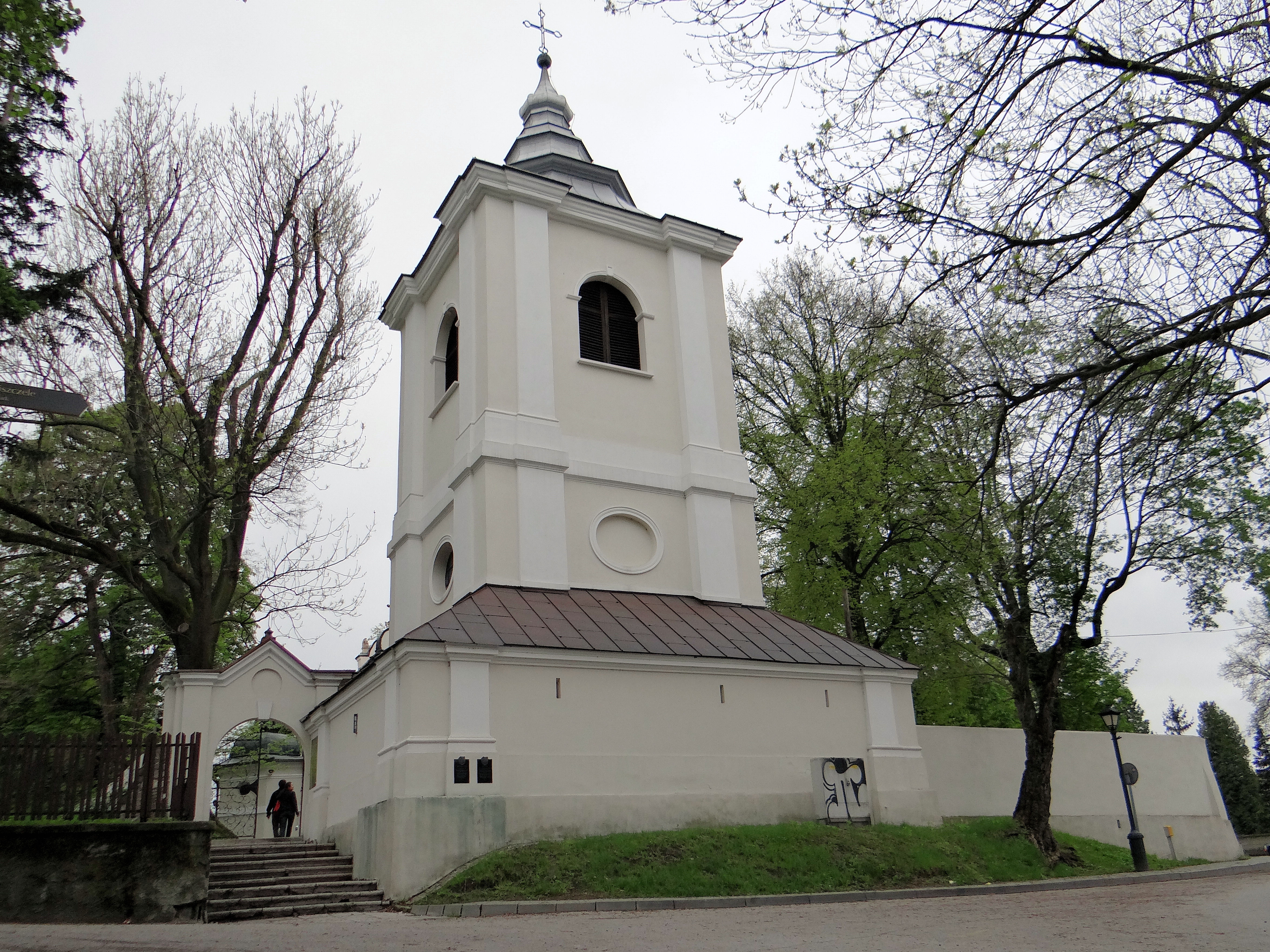 Bell Tower of Church of the Conversion of Saint Paul in Sandomierz